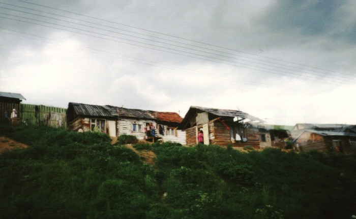 Roma village, Slovakia